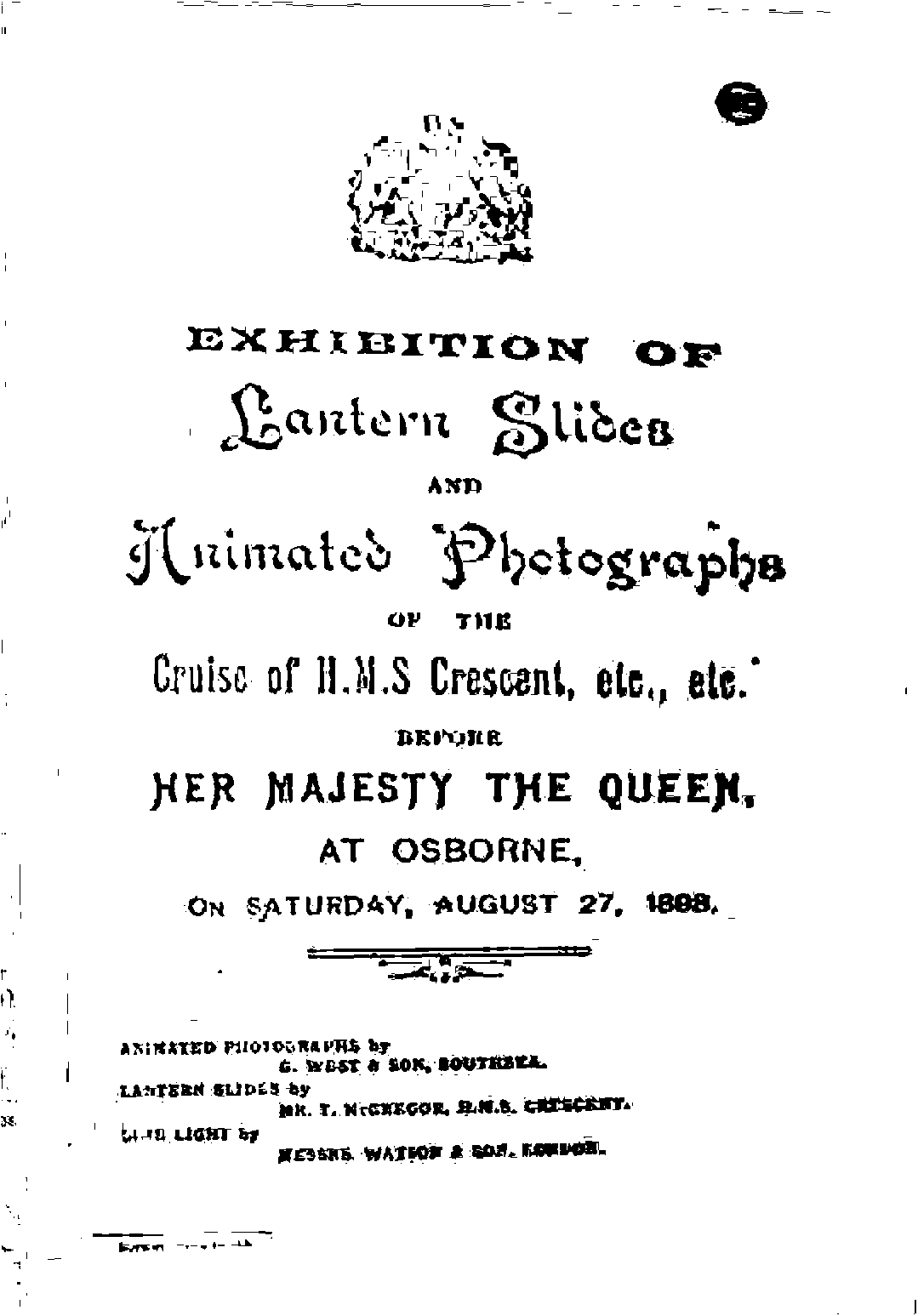 A copy of the programme of films and lantern slides shown before Queen Victoria at Osborne House on August 27 1898